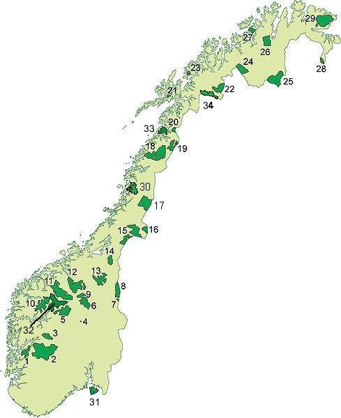 Map of the National Parks of Norway. Map based on work by User:Finn Bjørklid, file:Nasjonalparker_Norge.JPG. Revised to include some new national parks. The parks are 1: Folgefonna nasjonalpark; 2: Hardangervidda nasjonalpark; 3: Hallingskarvet nasjonalpark; 4: Ormtjernkampen nasjonalpark; 5: Jotunheimen nasjonalpark; 6: Rondane nasjonalpark ; 7: Gutulia nasjonalpark; 8: Femundsmarka nasjonalpark; 9: Dovre nasjonalpark ; 10: Jostedalsbreen nasjonalpark; 11: Reinheimen nasjonalpark; 12: Dovrefjell-Sunndalsfjella nasjonalpark; 13: Forollhogna nasjonalpark; 14: Skarvan og Roltdalen nasjonalpark; 15: Blåfjella-Skjækerfjella nasjonalpark; 16: Lierne nasjonalpark; 17: Børgefjell nasjonalpark; 18: Saltfjellet-Svartisen nasjonalpark; 19: Junkerdal nasjonalpark; 20: Rago nasjonalpark; 21: Møysalen nasjonalpark; 22: Øvre dividal nasjonalpark; 23: Ånderdalen nasjonalpark; 24: Reisa nasjonalpark; 25: Øvre Anarjohka nasjonalpark; 26: Stabbursdalen nasjonalpark; 27: Seiland nasjonalpark; 28: Øvre Pasvik nasjonalpark; 29: Varangerhalvøya nasjonalpark; 30: Lomsdal-Visten nasjonalpark; 31: Ytre Hvaler nasjonalpark; 32: Breheimen nasjonalpark; 33: Sjunkhatten nasjonalpark (For legend